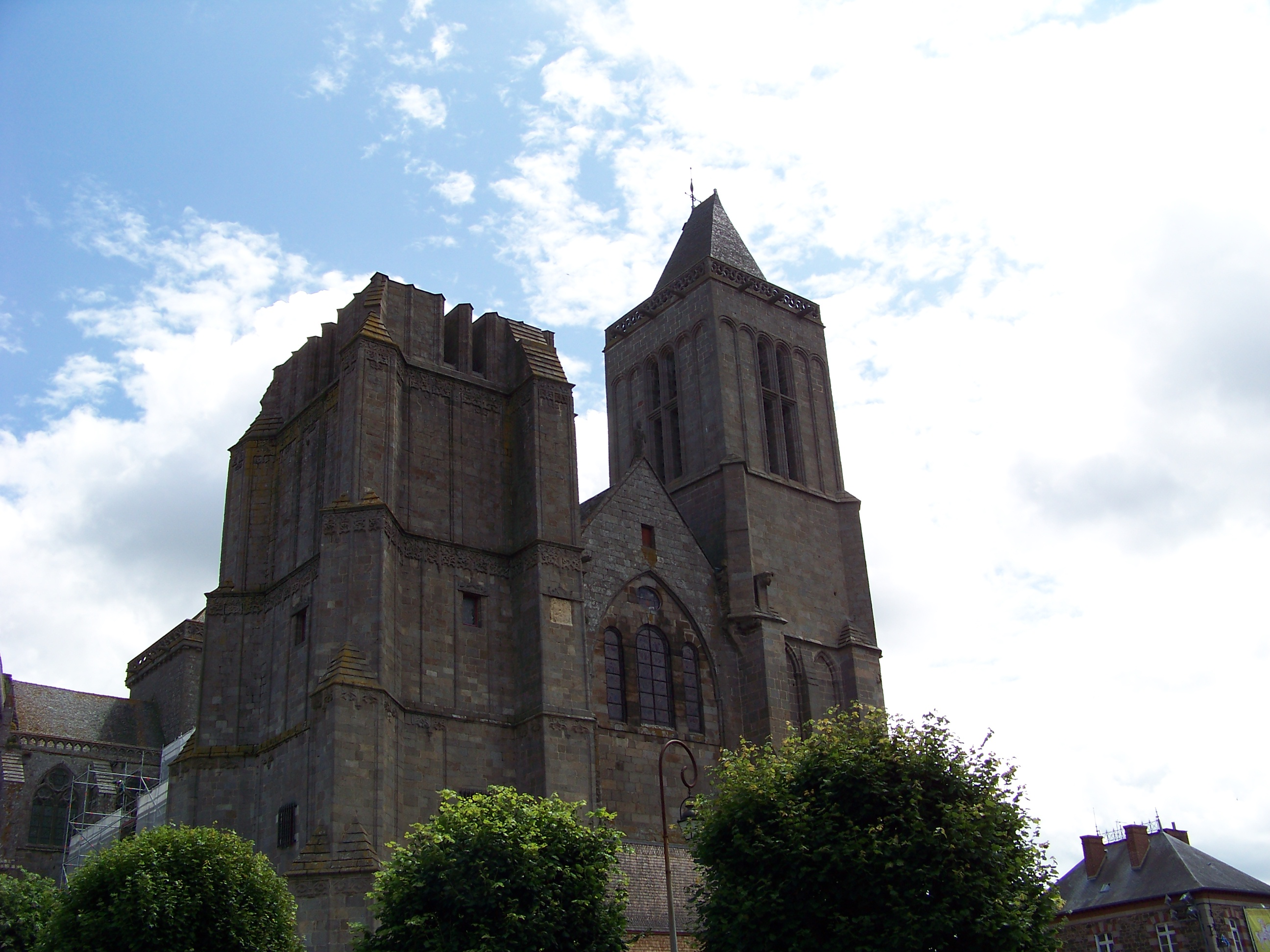 Saint-Samson cathedral, Dol, Ille et Vilaine, Brittany .